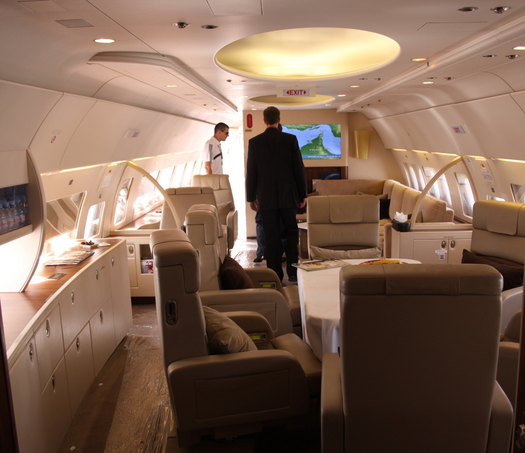 At Dubai International DXB